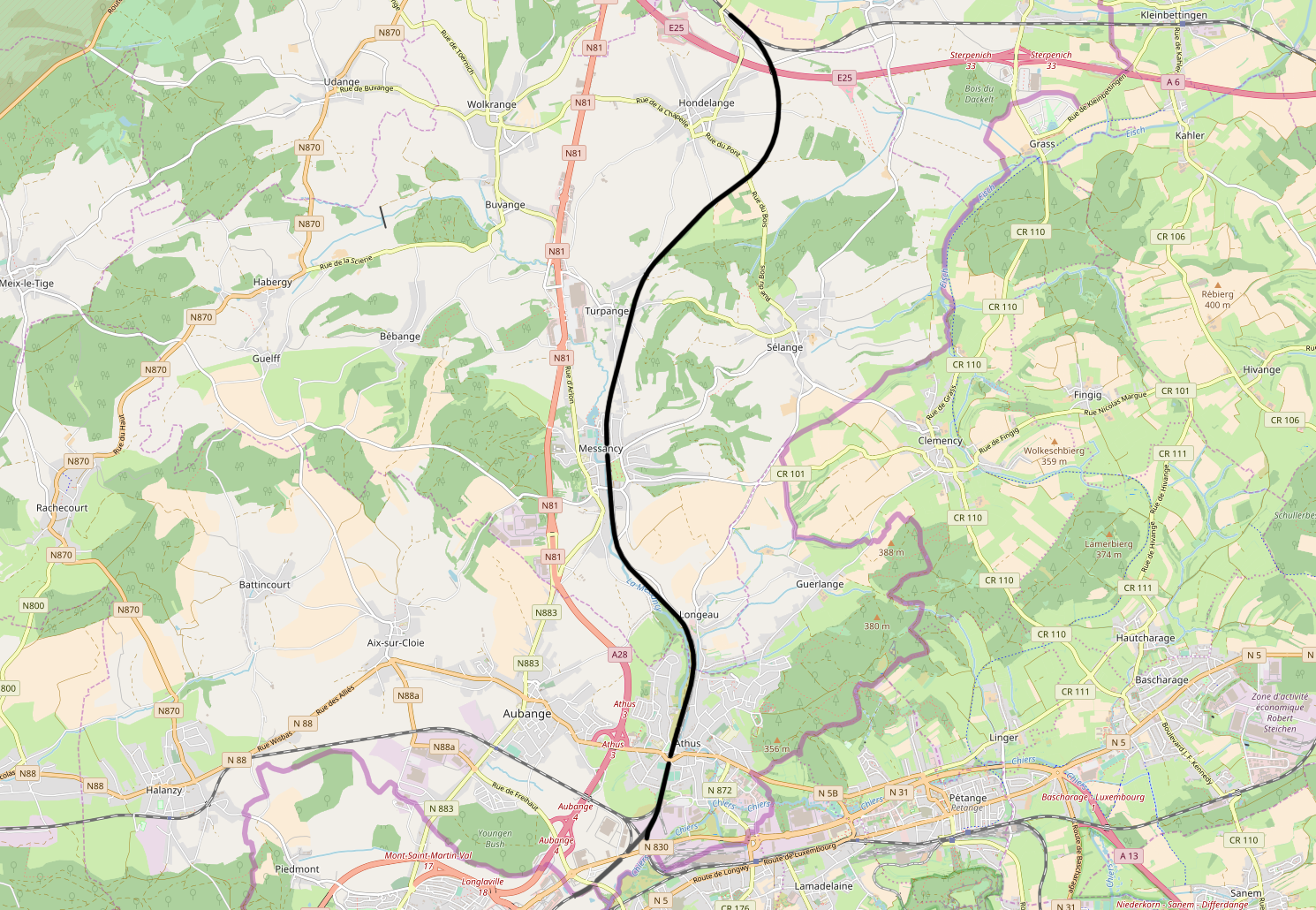 Belgian Railway Line 167, Autelbas - Mont-Saint-Martin